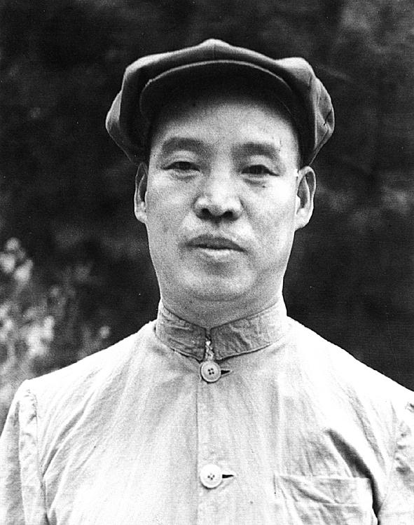 Peng Zhen (彭真), Chairman of the Standing Committee of the National People's Congress of PRC